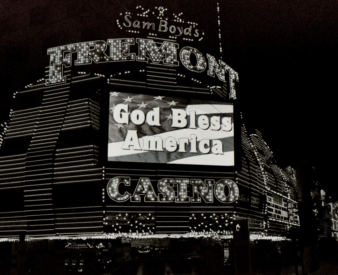 Fremont Hotel and Casino — on Fremont Street in Downtown Las Vegas. December 2003). Photo by Peter Rimar.